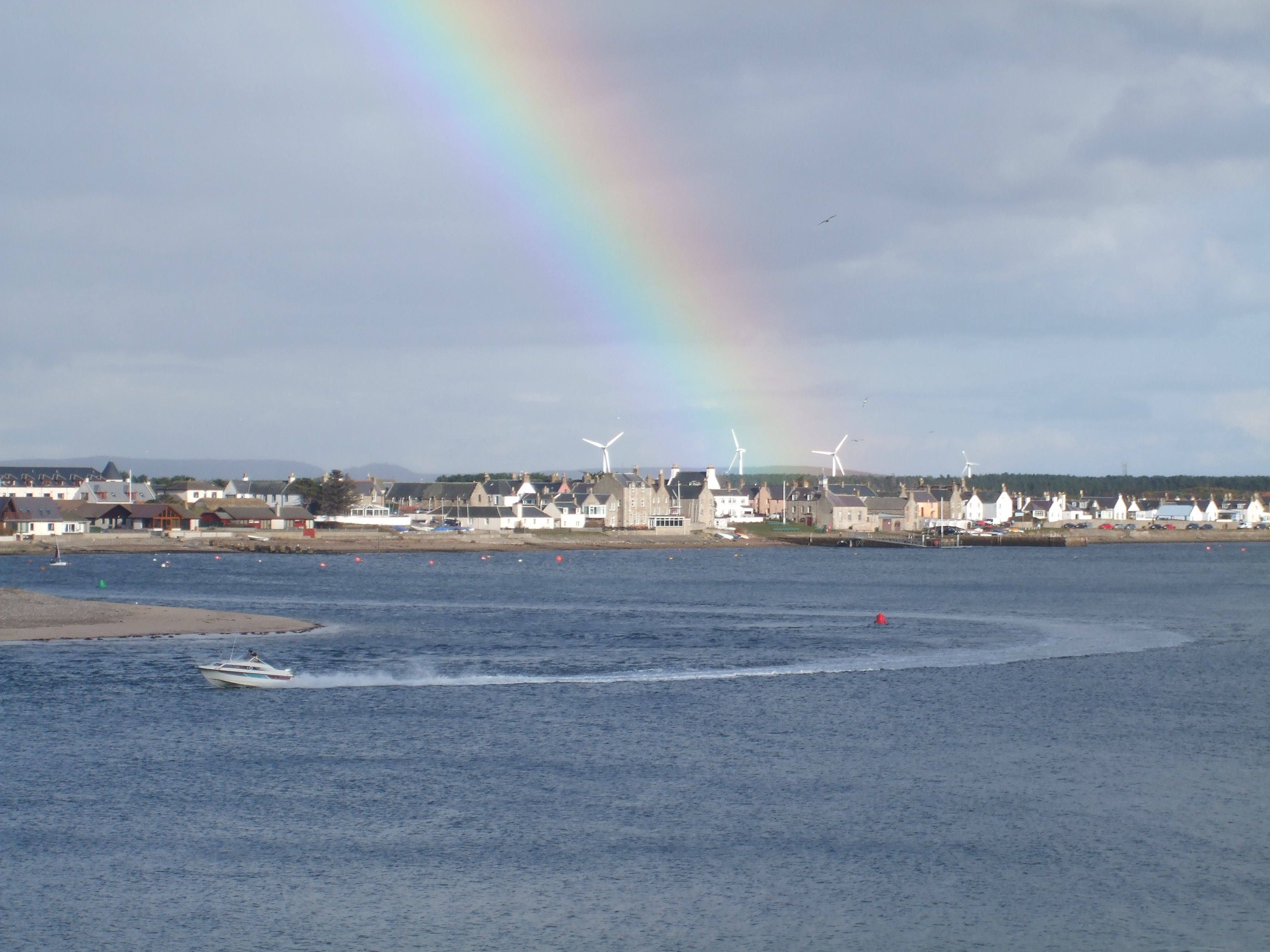 A picture of Findhorn across Findhorn Bay from Culbin Forest.